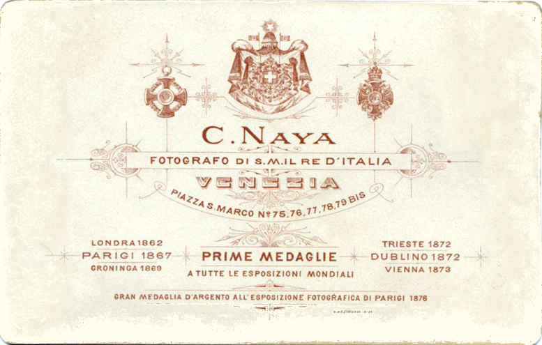 Carlo Naya (1822-1881) - Venice. Trademark.